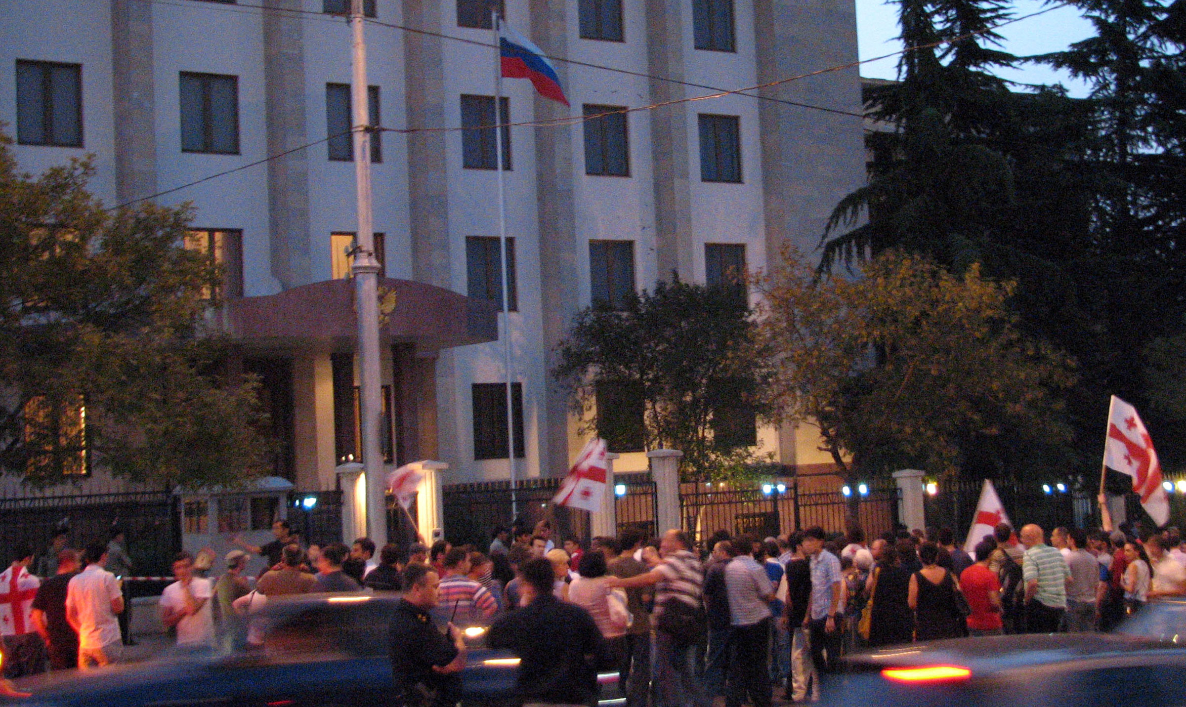 Demonstration outside the Russian embassy in Tbilisi, Georgia